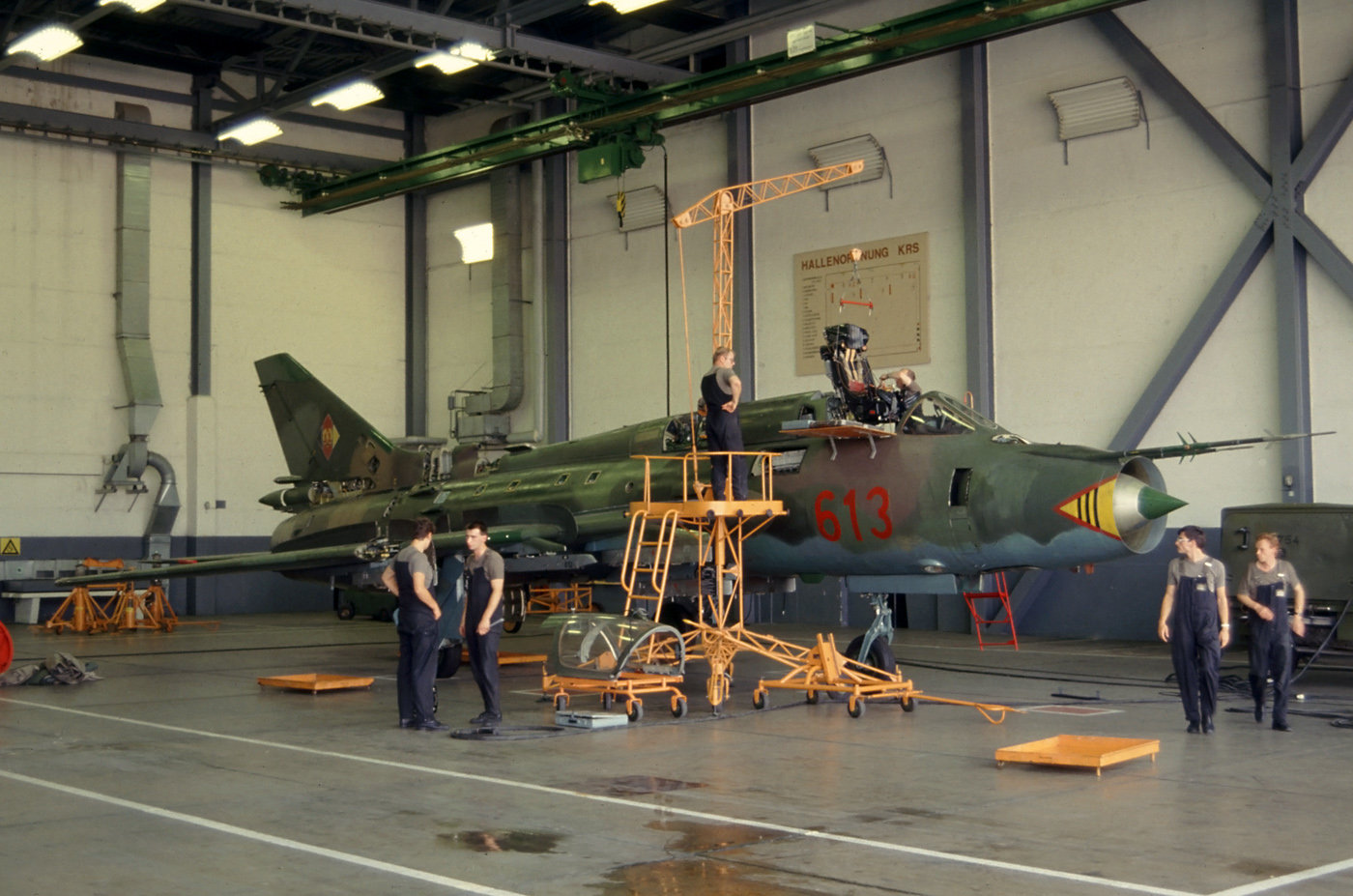 Removing or installing an ejection seat from a Su-22M-4 at Laage on 30 August 1990. More East German Sukhois in my NVA-album